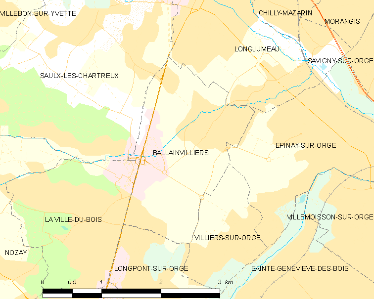 Map of French municipality Ballainvilliers